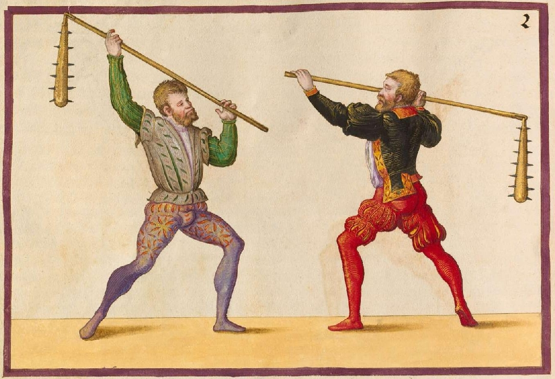 Mair, Paul Hector: De arte athletica I - BSB Cod.icon. 393(1 Augsburg Mitte 16. Jh.